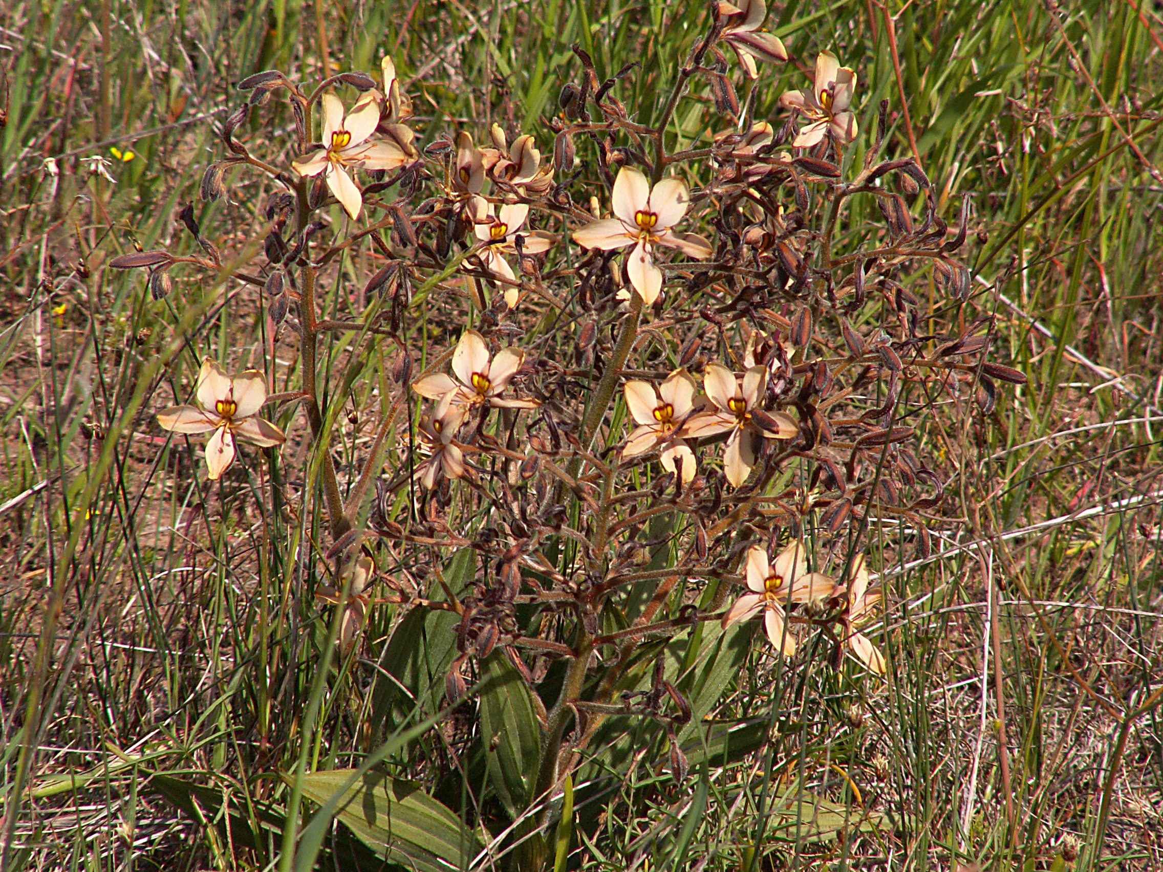 Wachendorfia brachyandra (W.F.Barker) - in Renosterveld habitat at Tienie Versfeld Wildflower Reserve, endemic to South Africa.